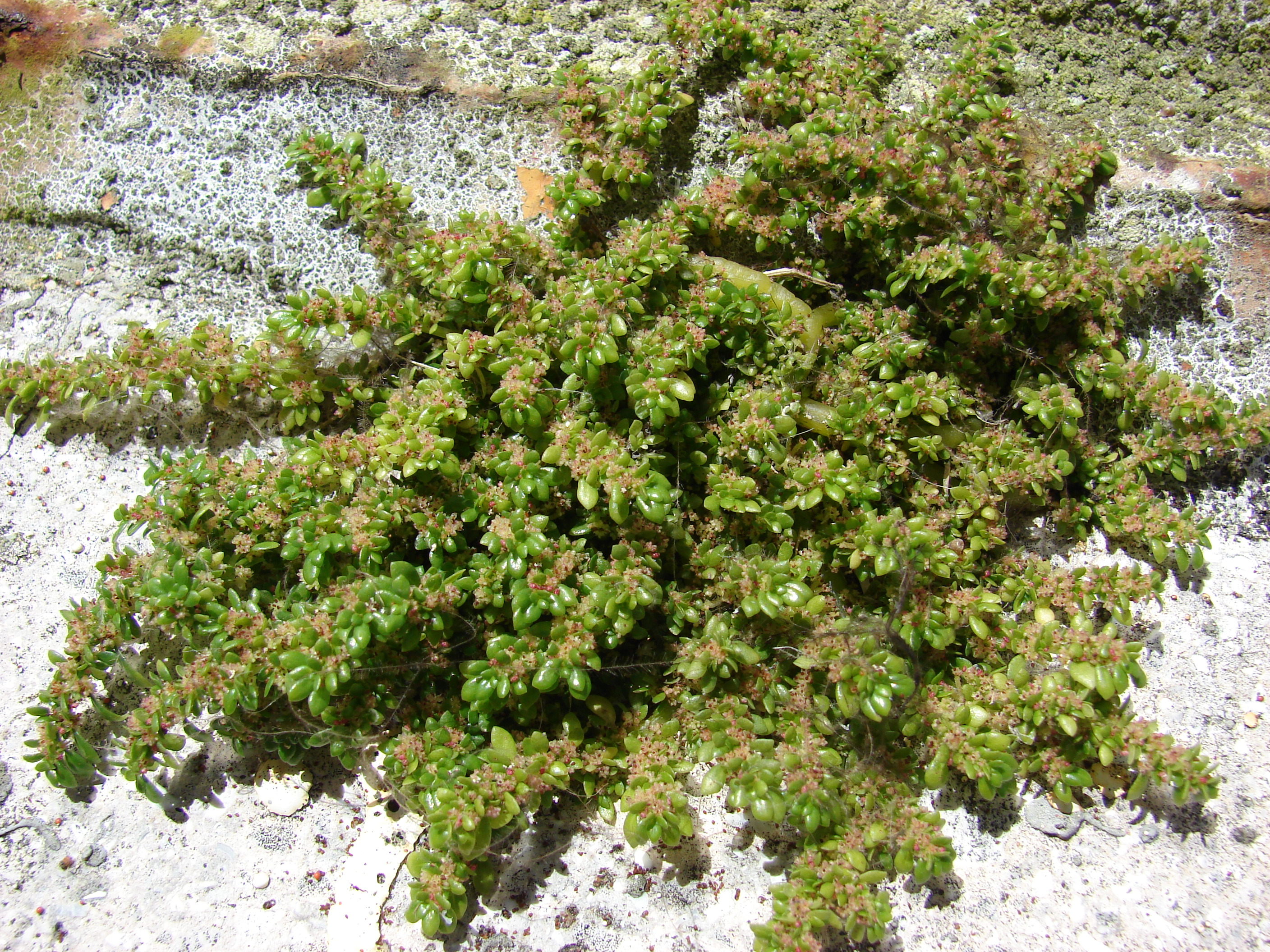 Pilea microphylla (fruiting habit). Location: Midway Atoll, Water tanks Sand Island